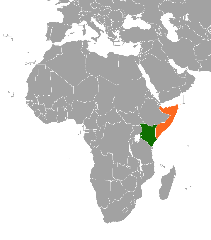 Map showing locations of Kenya and Somalia